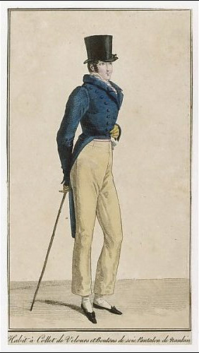 Pink striped waistcoat, blue tight fitting double-breasted coat with hip pocket, velvet collar, narrow tails, padded shoulders, a top hat, nankeen trousers and black pumps.